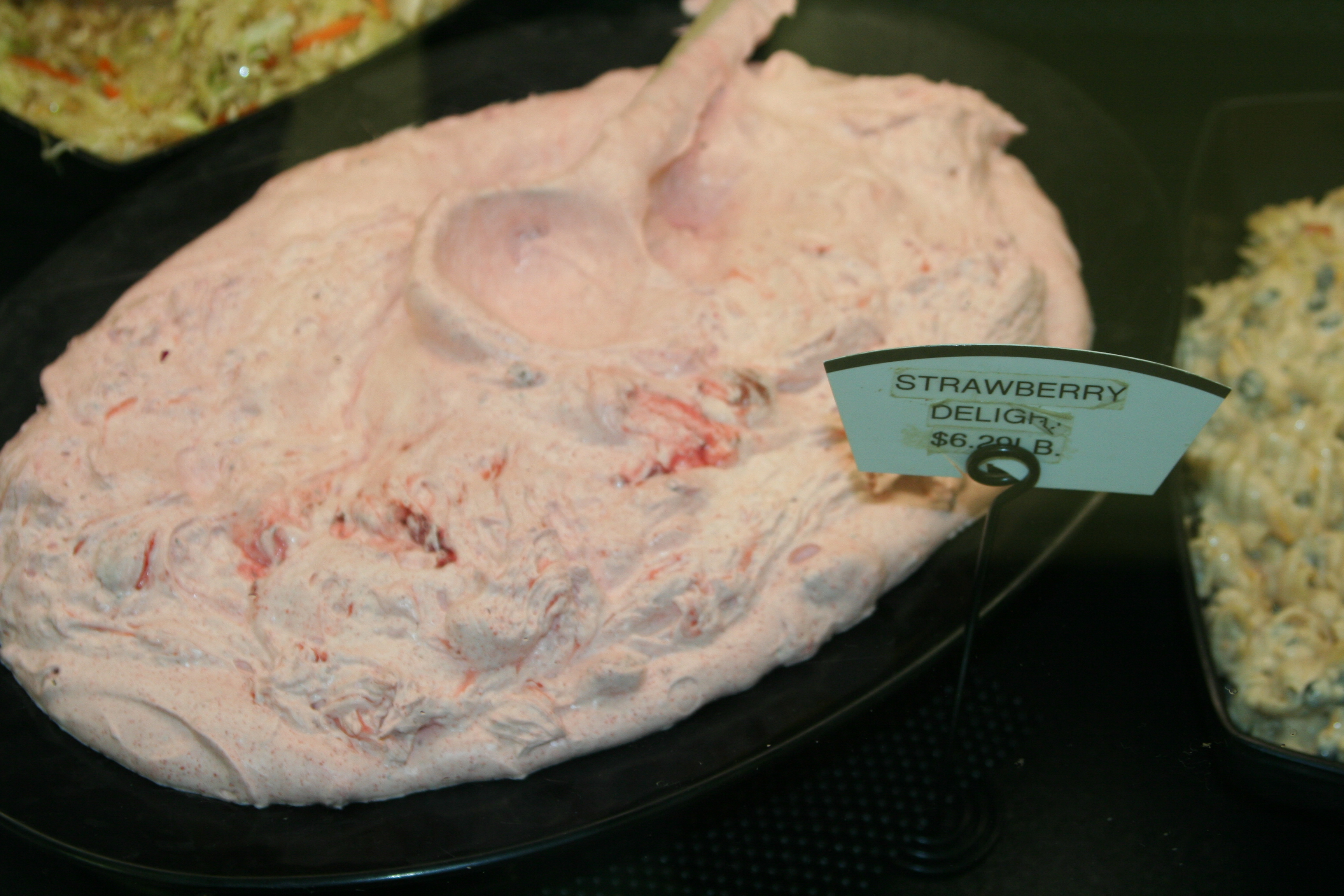 Strawberry Delight from the land of ice and snow (Minnesota). Supermarket.